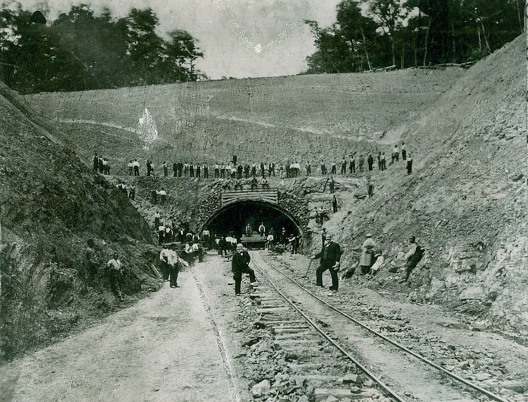 A picture of the Rays Hill Tunnel in Fulton County, Pennsylvania during construction of the tunnel in the 1880s for the Southern Pennsylvania Railroad. This later became a tunnel for the Pennsylvania Turnpike and abandoned completely in 1968. Andrew Carnegie is seen here in the middle in front of the original railroad construction.